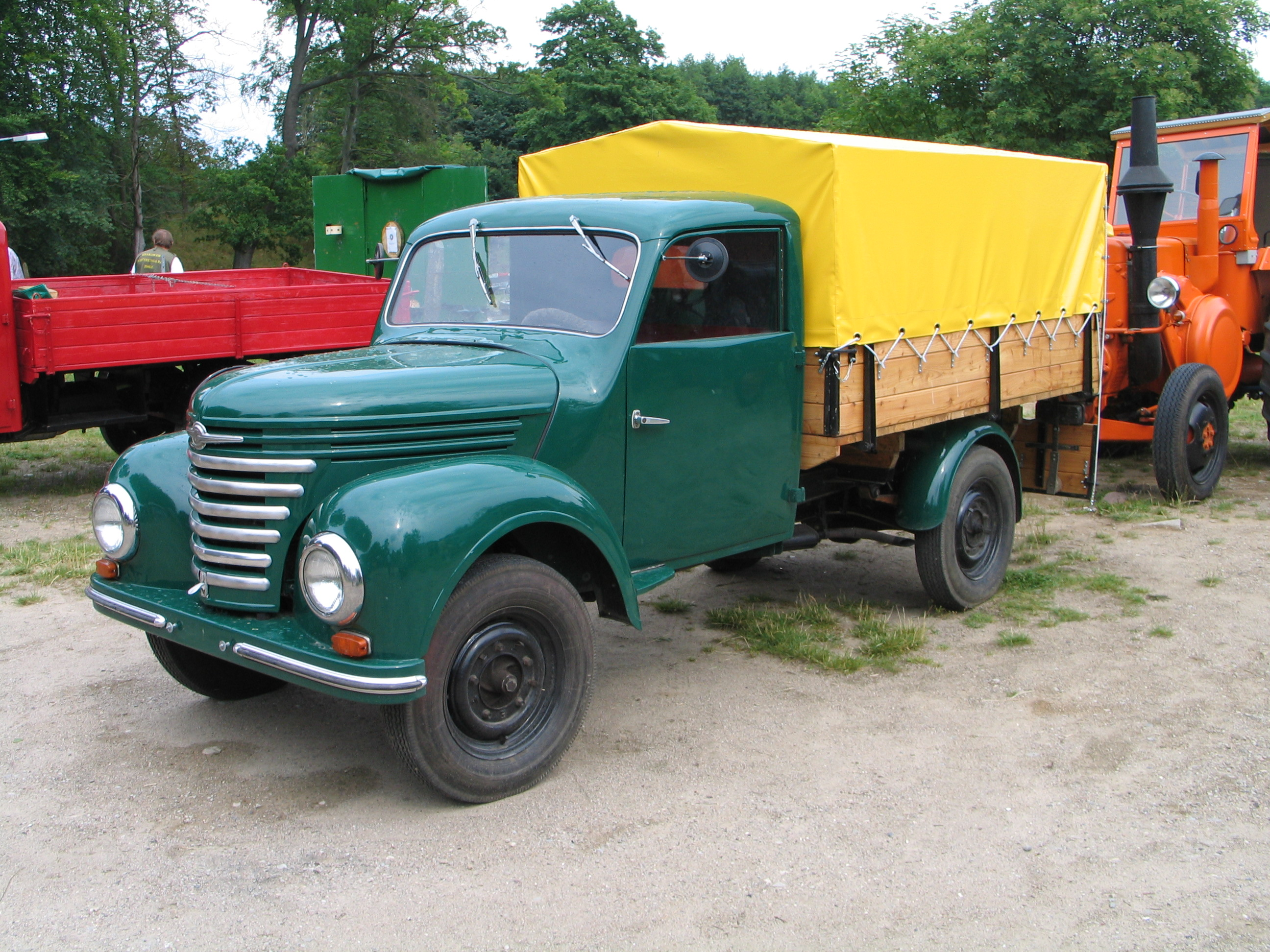 green Framo Barkas V 901/2 build in the GDR.